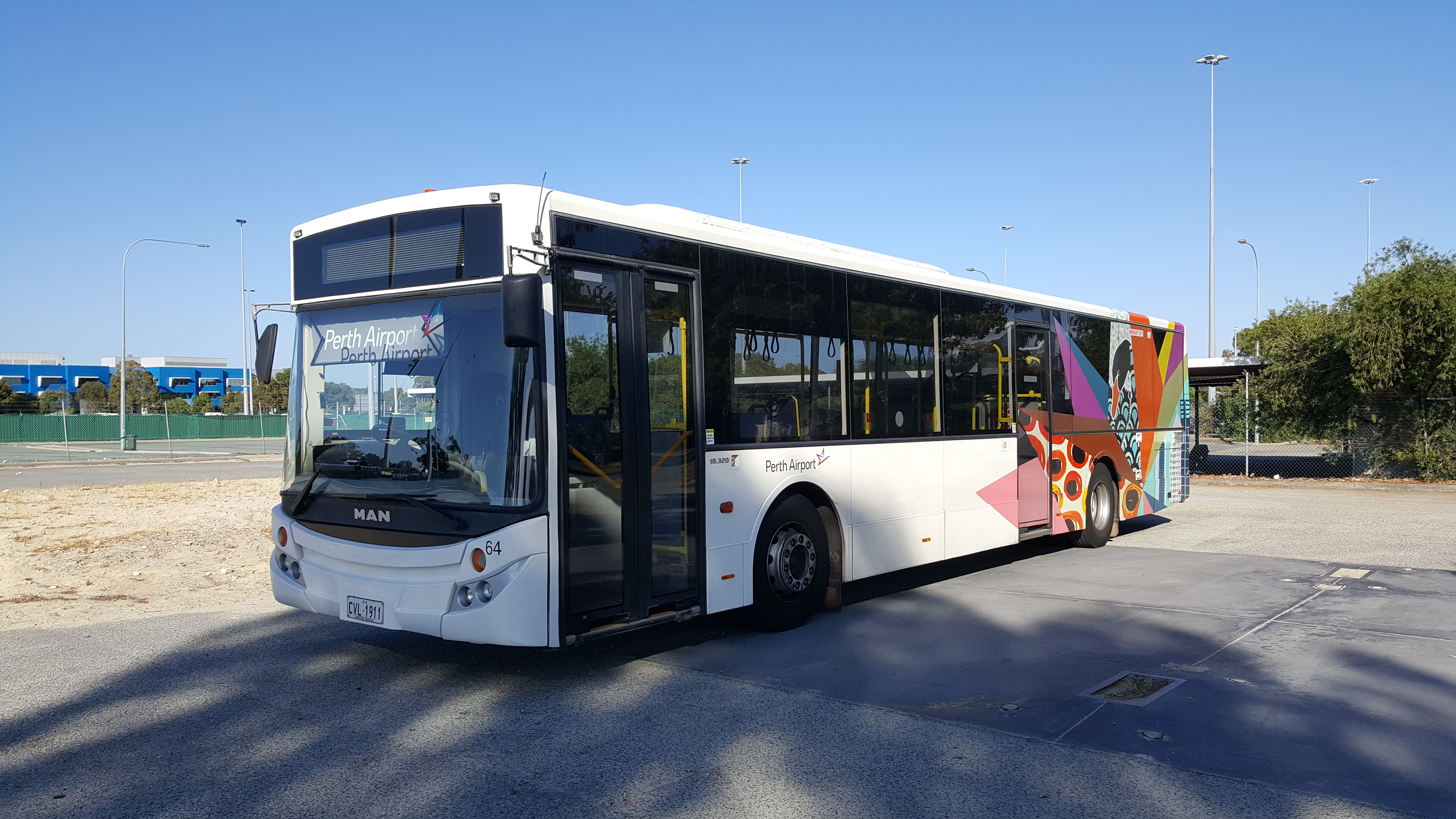 An MCV Elite C130-bodied MAN 18.320, registered as CVL1911 and operated by Carbridge Perth, seen parked at Fauntleroy Avenue,Perth Airport.